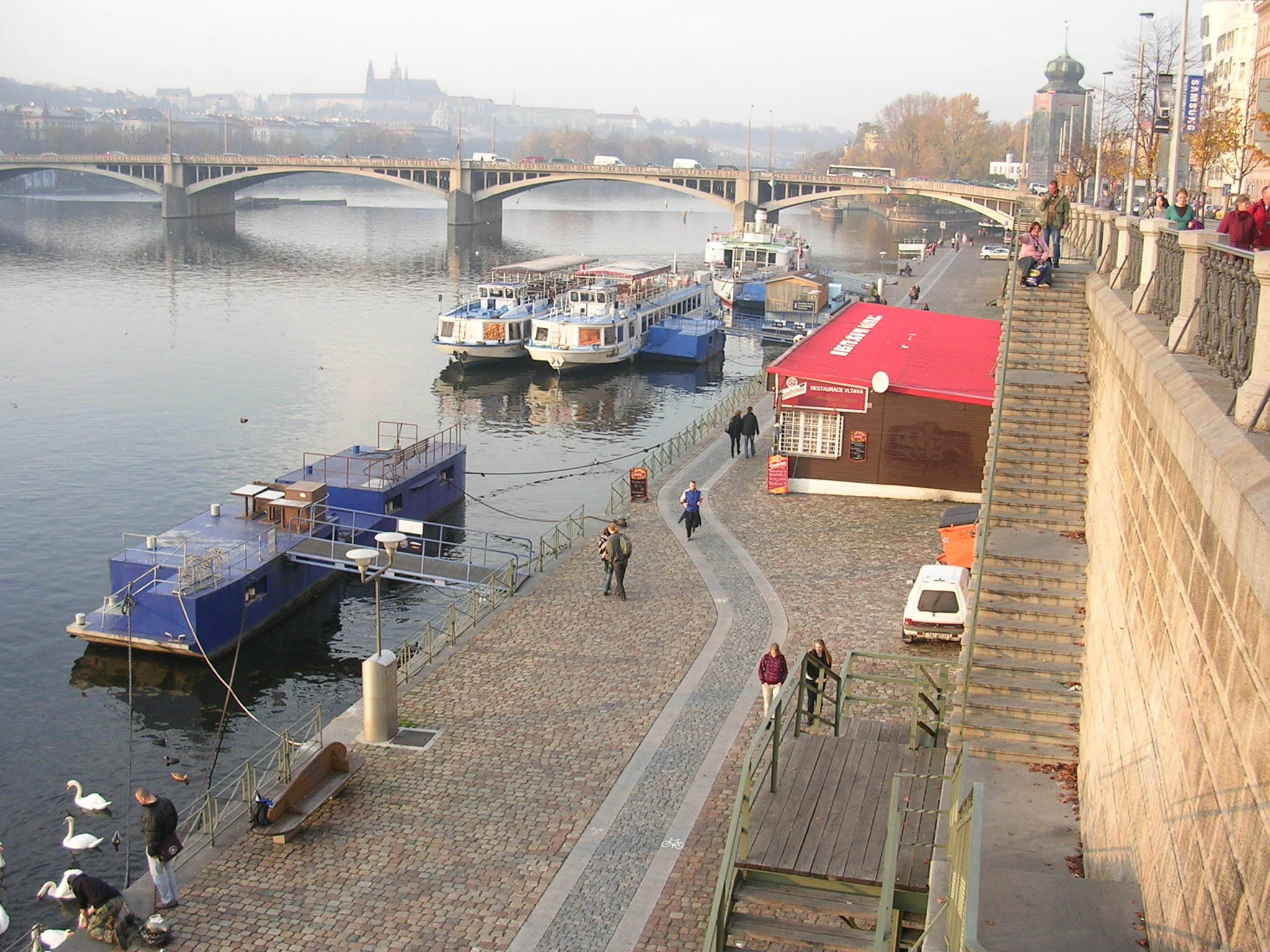 New Town, Prague.